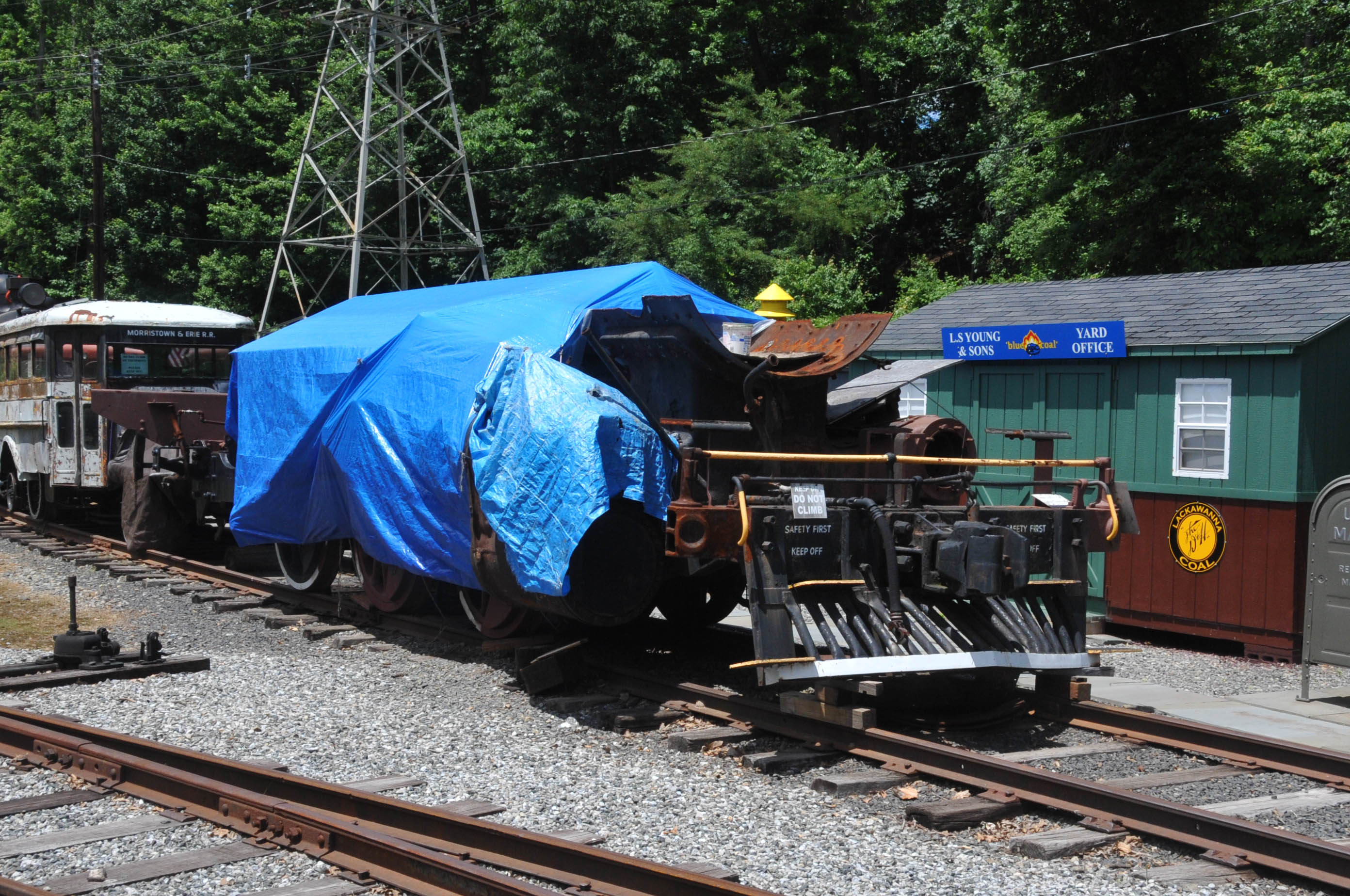 THE LOCOMOTIVE WAS BUILT BY THE AMERICAN LOCOMOTIVE COMPANY IN NOVEMBER 1942 FOR THE U.S. WAR DEPARTMENT. THE LOCOMOTIVE IS A 0-6-0 "SWITCHING"-TYPE BUILT FOR STANDARD GAUGE TRACK. AFTER WWII IT WAS SOLD TO PRIVATE CONCERNS AND FOR A WHILE IT WAS USED AS THE LOCOMOTIVE FOR SCENIC EXCURSIONS. IT IS PRESENTLY UNDER A BLUE TARPAULIN AWAITING RENOVATION WHICH IS DELAYED FOR AT LEAST TWO YEARS FOR LACK OF FUNDS.